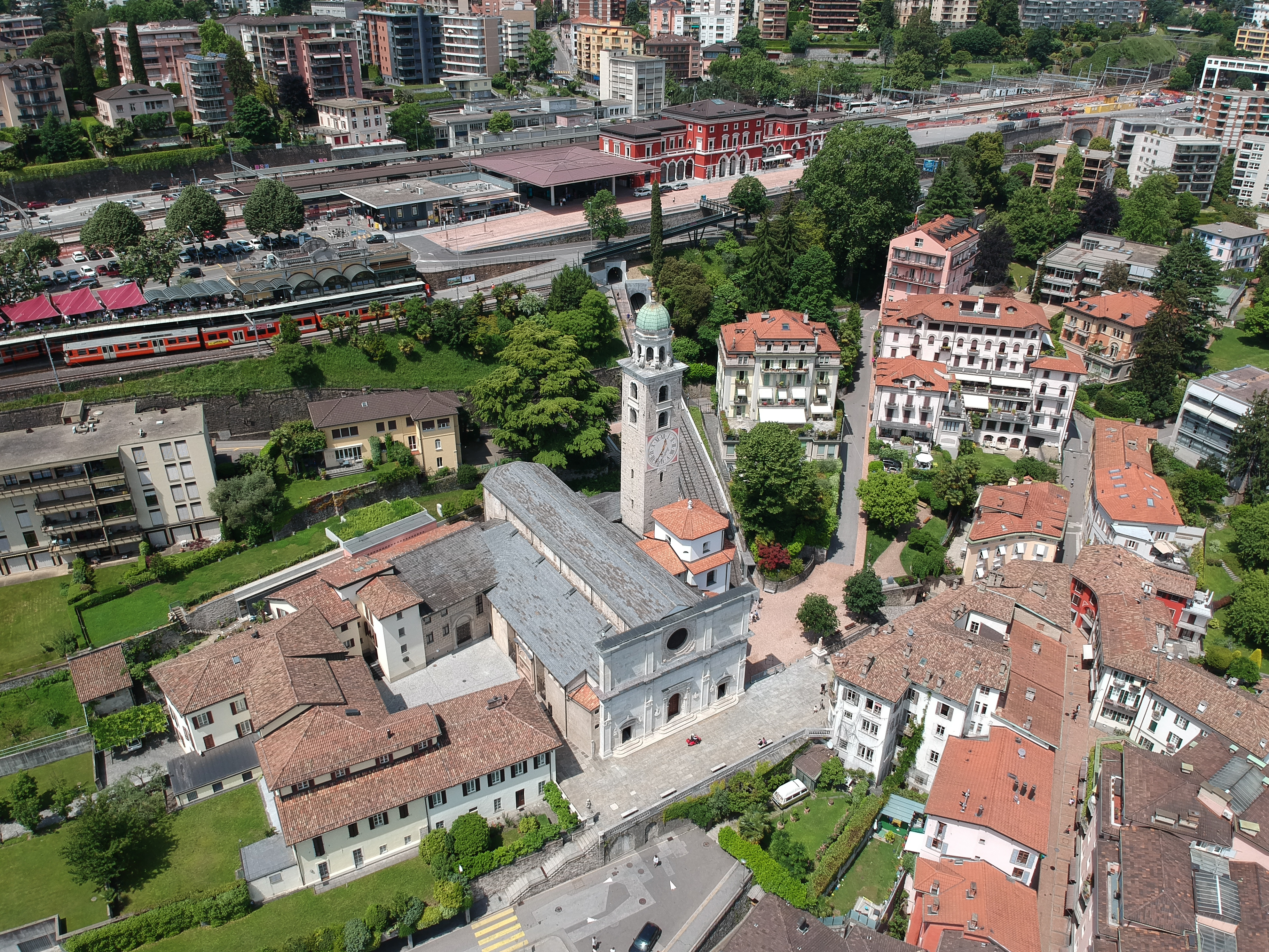 Cathedral of Saint Lawrence (Lugano)